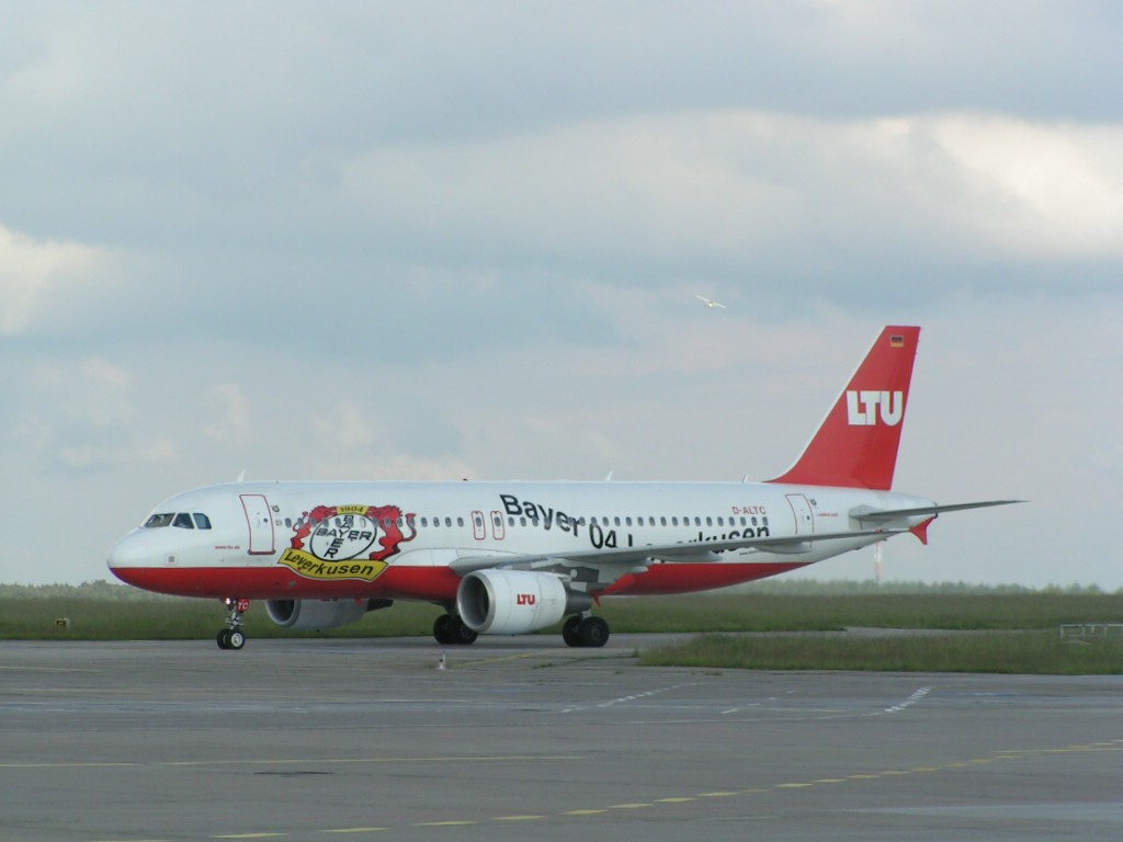 LTU-Logojet "Bayer Leverkusen" (german football-team) at Berlin-Schönefeld, an Airbus A320-214 Source: taken by David Herrmann, 22. Mai 2005